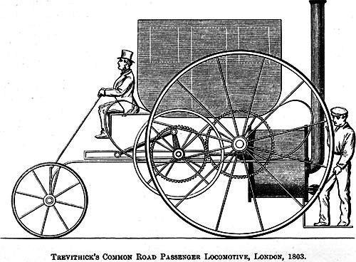 Illustration of "London Steam Carriage" with body built by William Felton